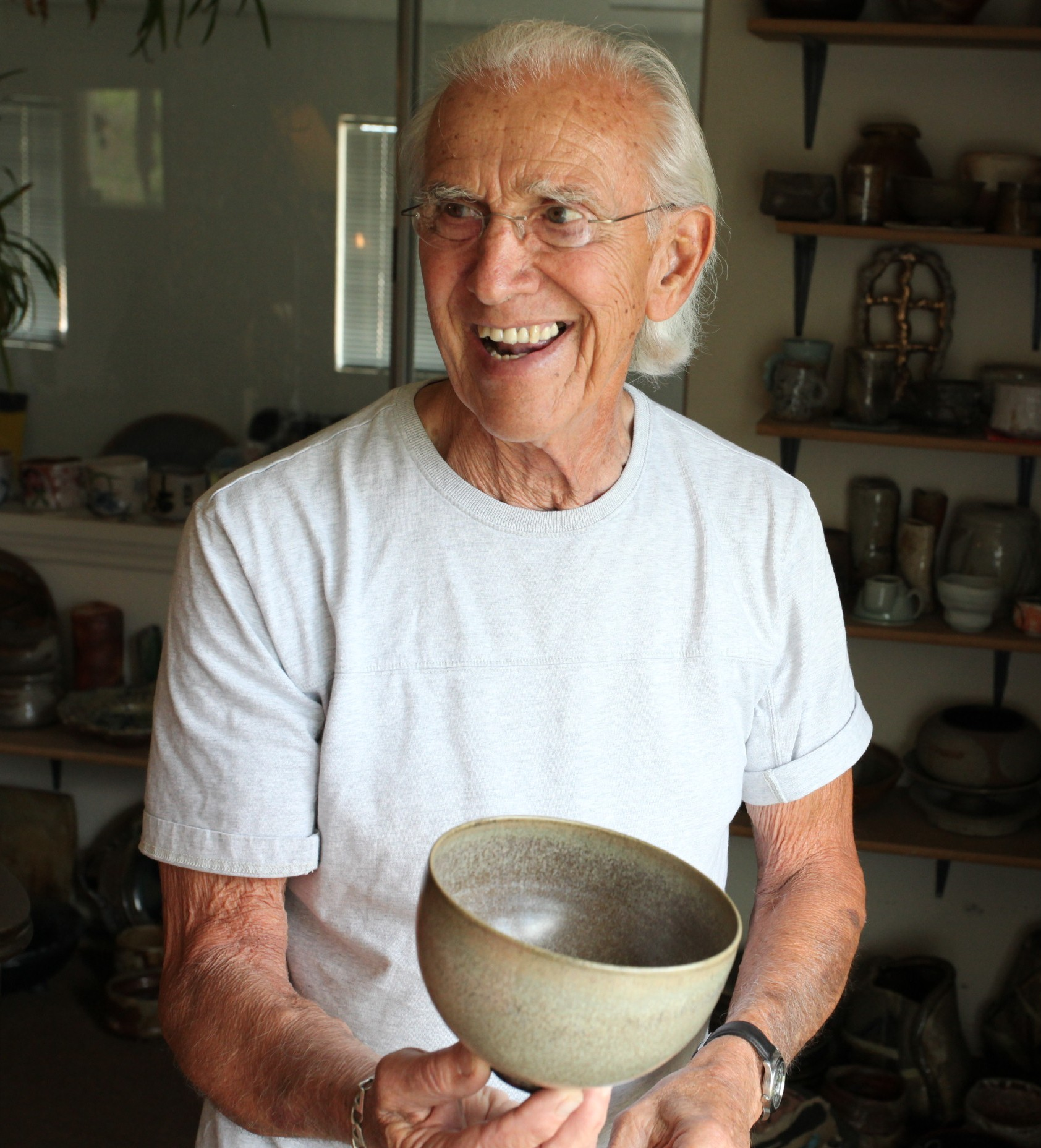 Portrait of Don Reitz